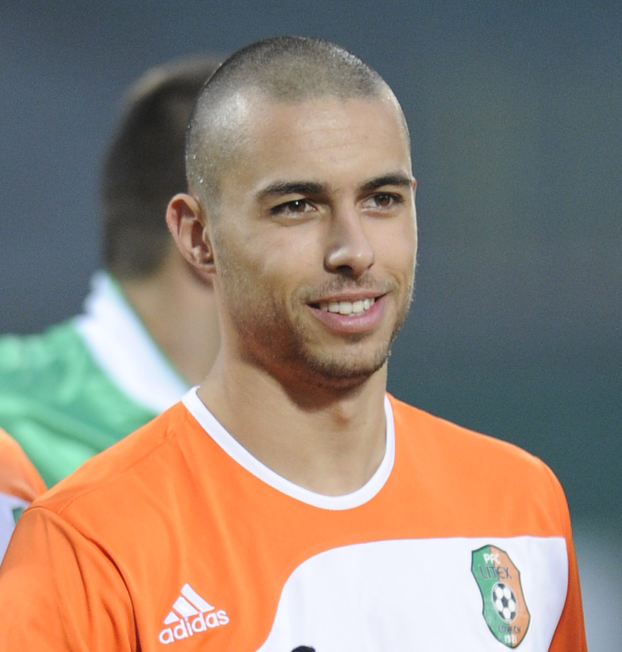 Momchil Cvetanov, Bulgarian footballer Litex Lovech